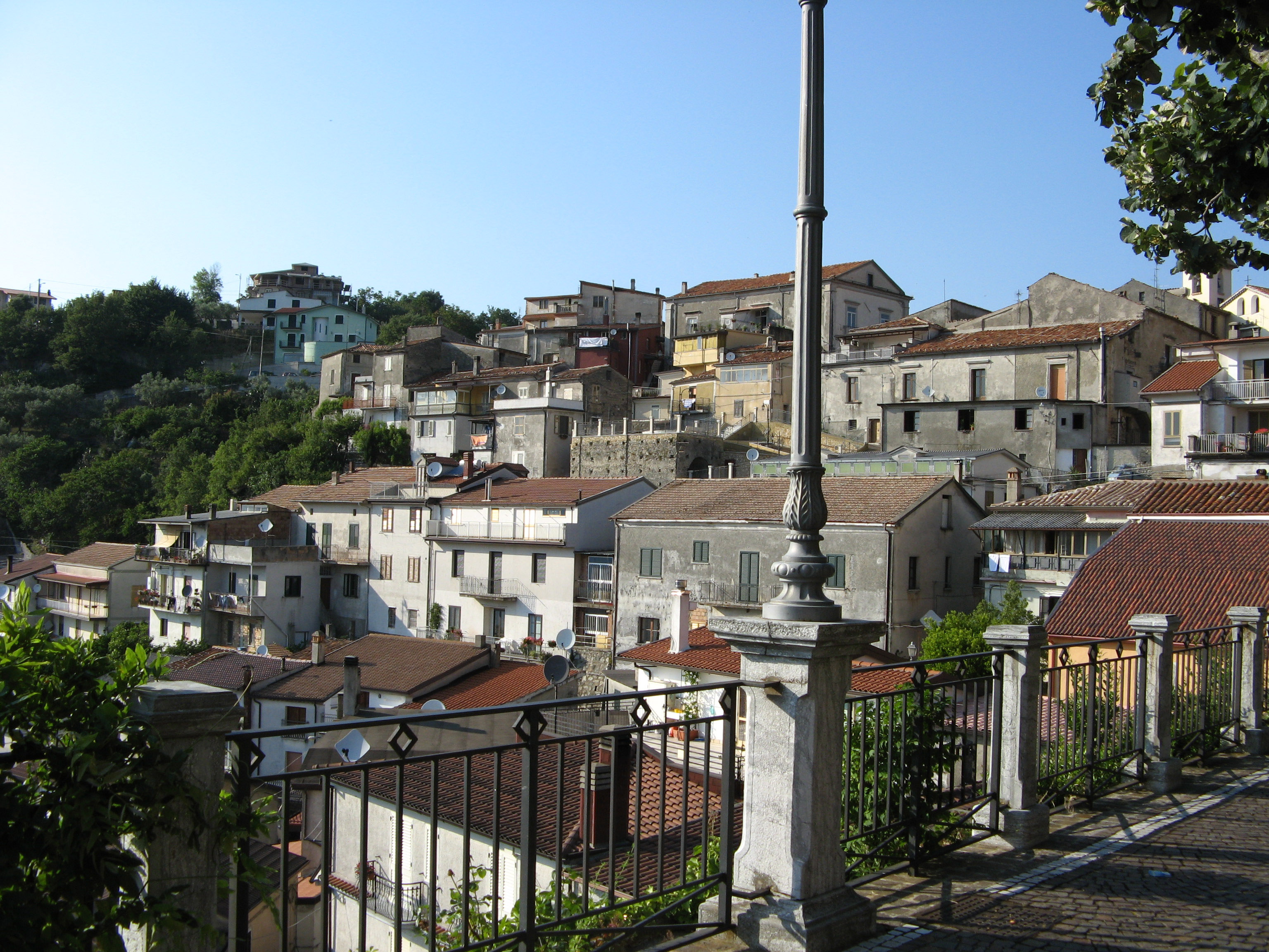 Martirano (Calabria, Italy), View